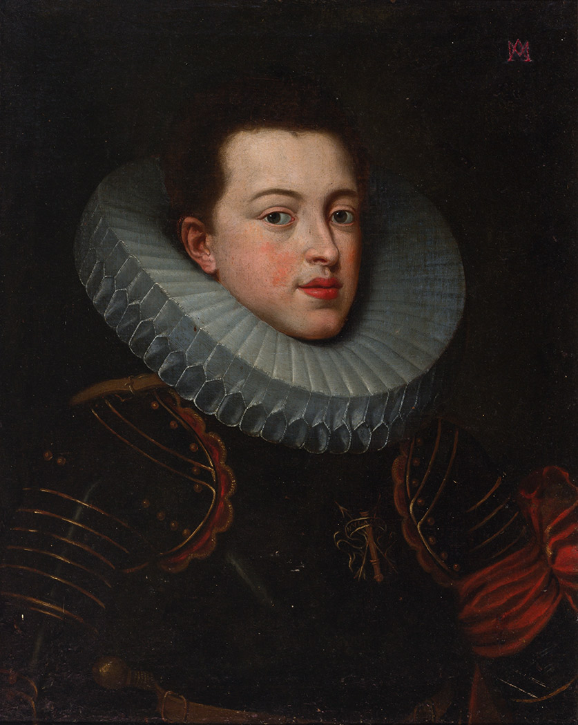 Portrait of Duke of Mantua Francesco IV Gonzaga